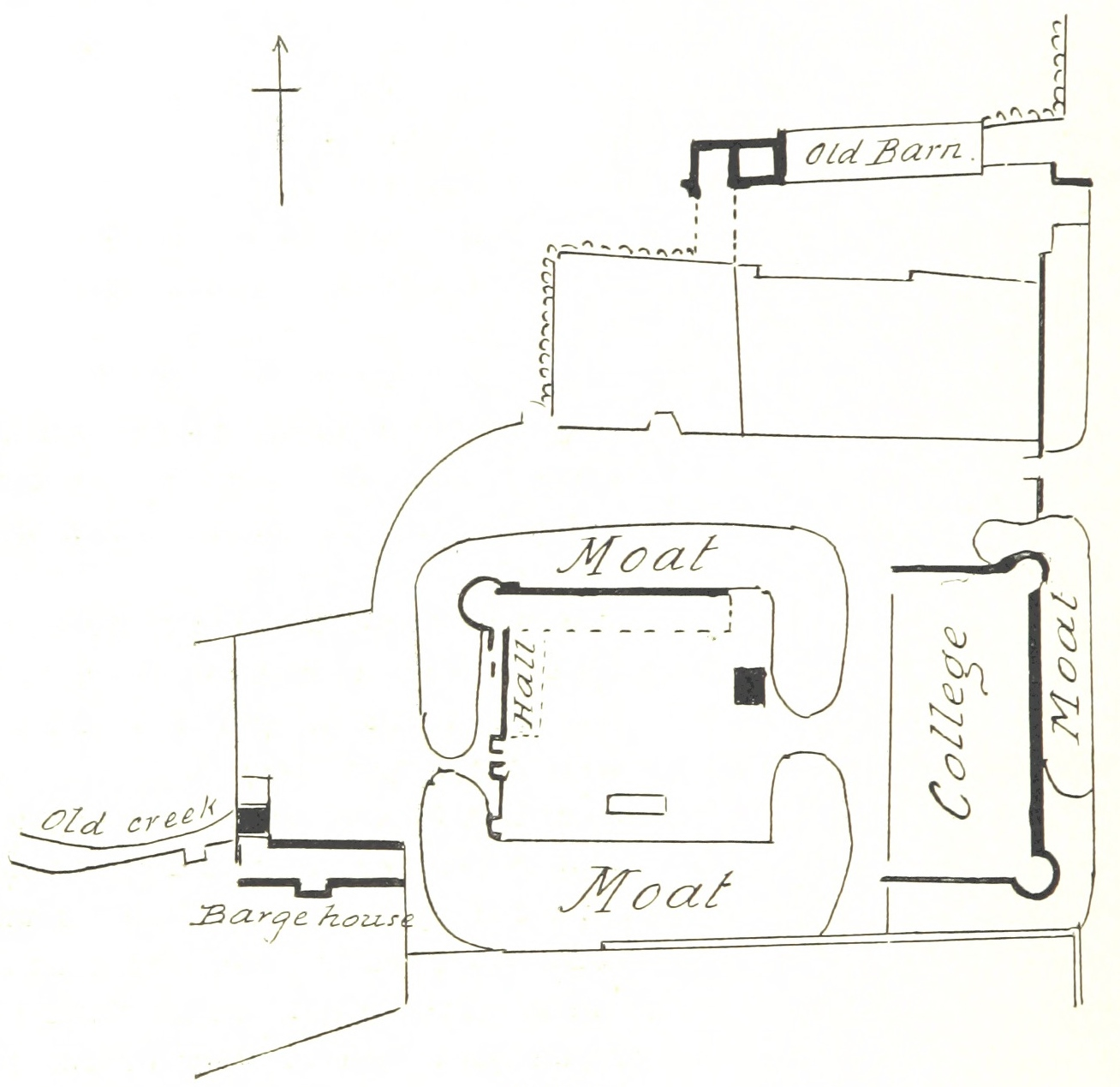 A plan of Caister Castle, taken from: Title: "The Castles of England: their story and structure ... With ... illustrations and ... plans" Author: MACKENZIE, James Dixon - Sir, Bart Contributor: MACNAIRN, J. Shelfmark: "British Library HMNTS 10369.v.7." Volume: 01 Page: 348 Place of Publishing: London Date of Publishing: 1897 Publisher: W. Heinemann Issuance: monographic Identifier: 002322661 Note: The colours, contrast and appearance of these illustrations are unlikely to be true to life. They are derived from scanned images that have been enhanced for machine interpretation and have been altered from their originals. If you wish to purchase a high quality copy of the page that this image is drawn from, please order it here. Please note that you will need to enter details from the above list - such as the shelfmark, the page, the book's volume and so on - when filling out your order. Explore: Find this item in the British Library catalogue, 'Explore'. Open the page in the British Library's itemViewer (page: 348) Download the PDF for this book Click here to see all the illustrations in this book and click here to browse other illustrations published in books in the same year. Please click on the tags shown on the right-hand side for other ways to browse the illustrations.